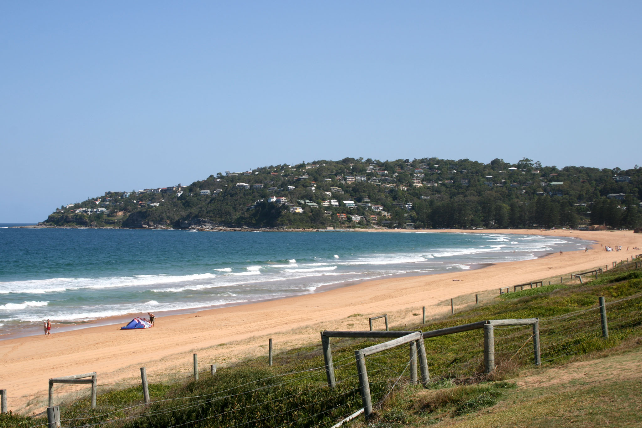 Palm Beach, NSW, Australia